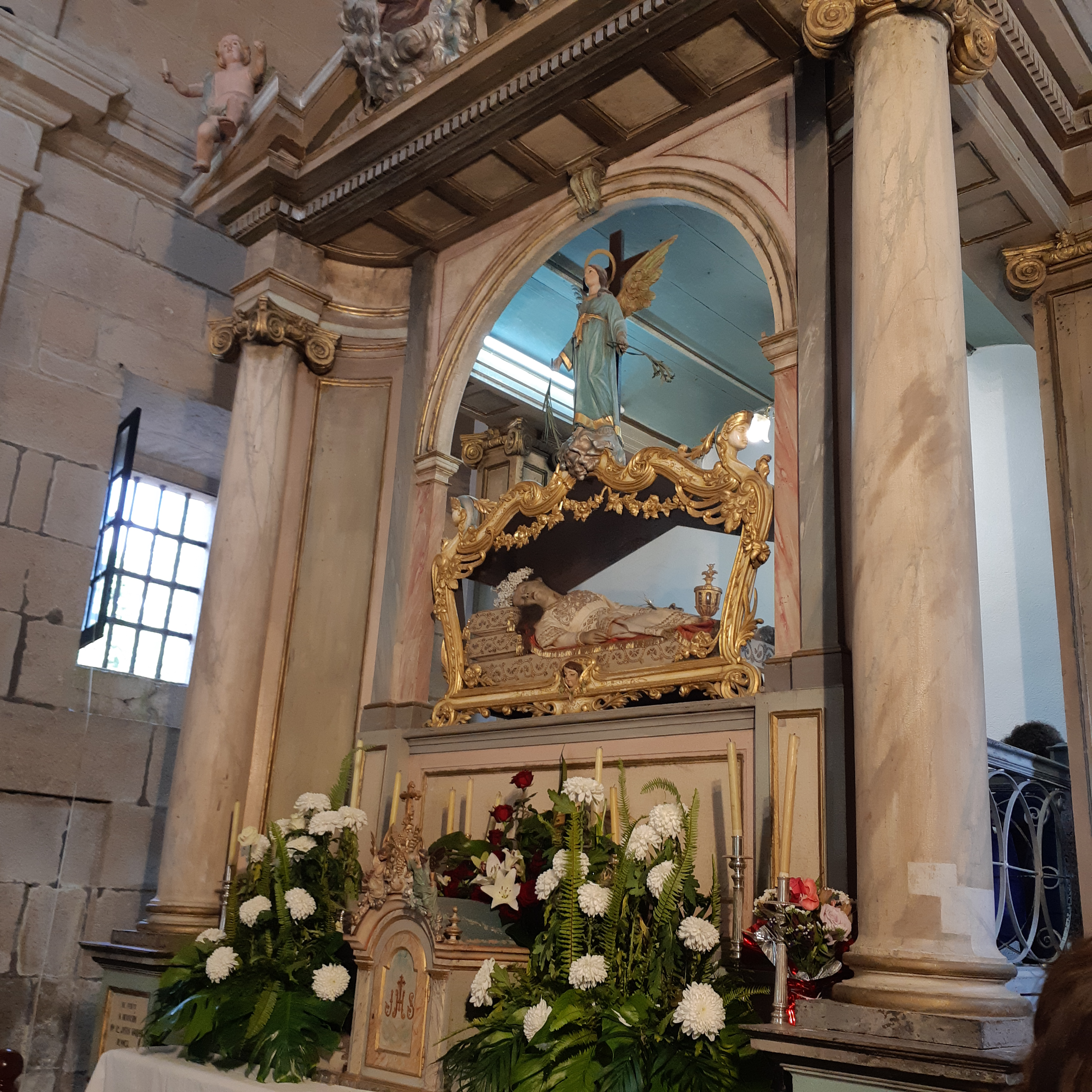 Santa Minia Relics